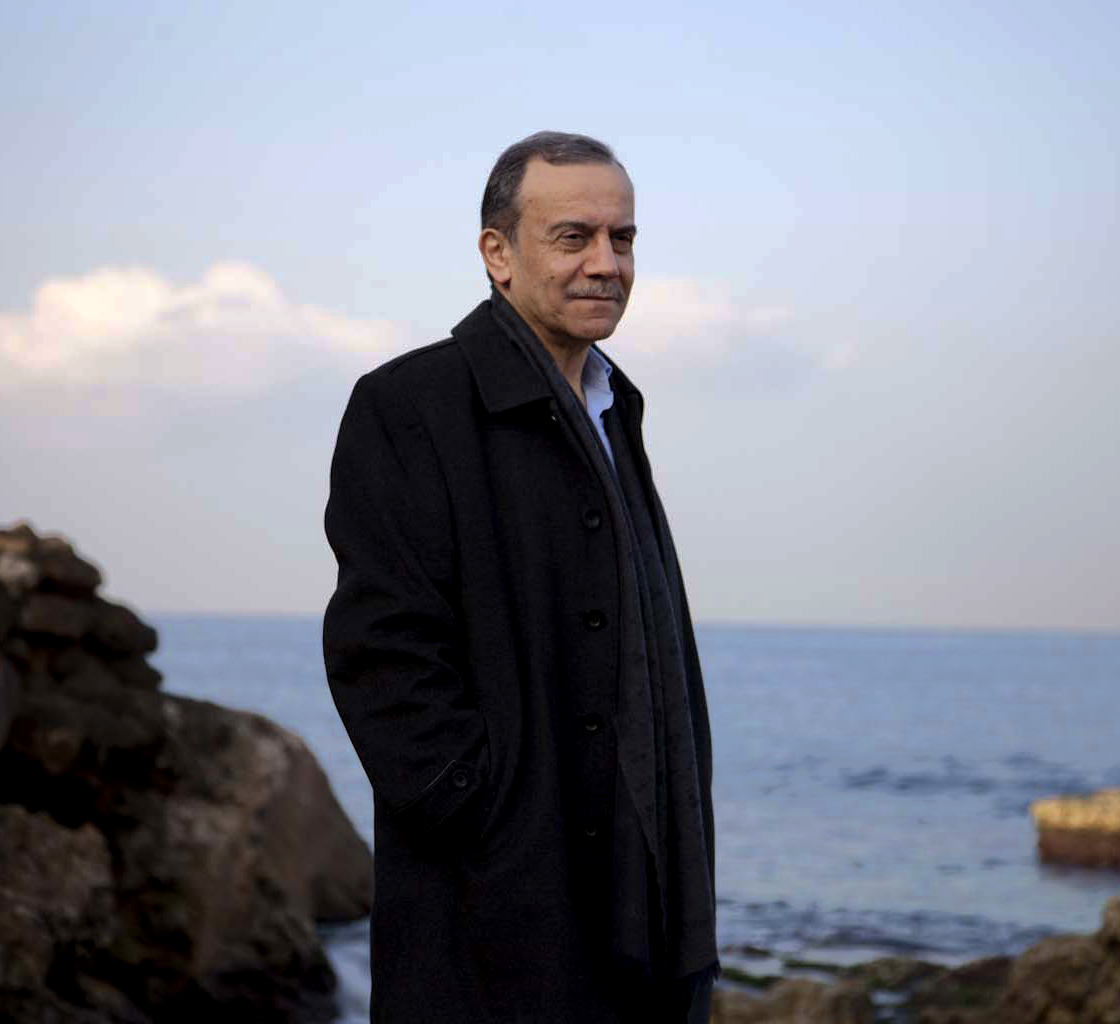 Ahmad Kaabour, Beirut 2014